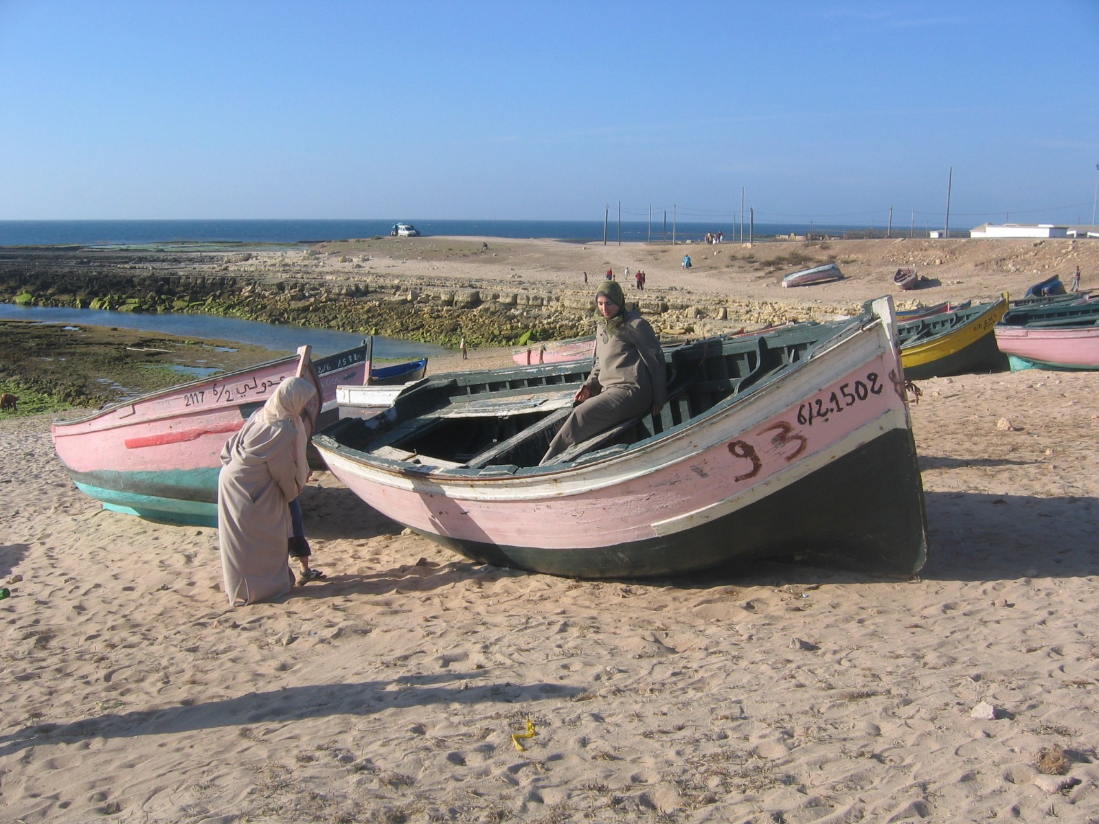 This is an image with the theme "Africa on the Move or Transport" from: Morocco